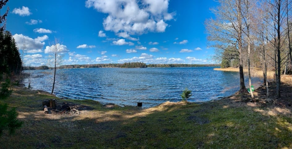 Poslovitsa